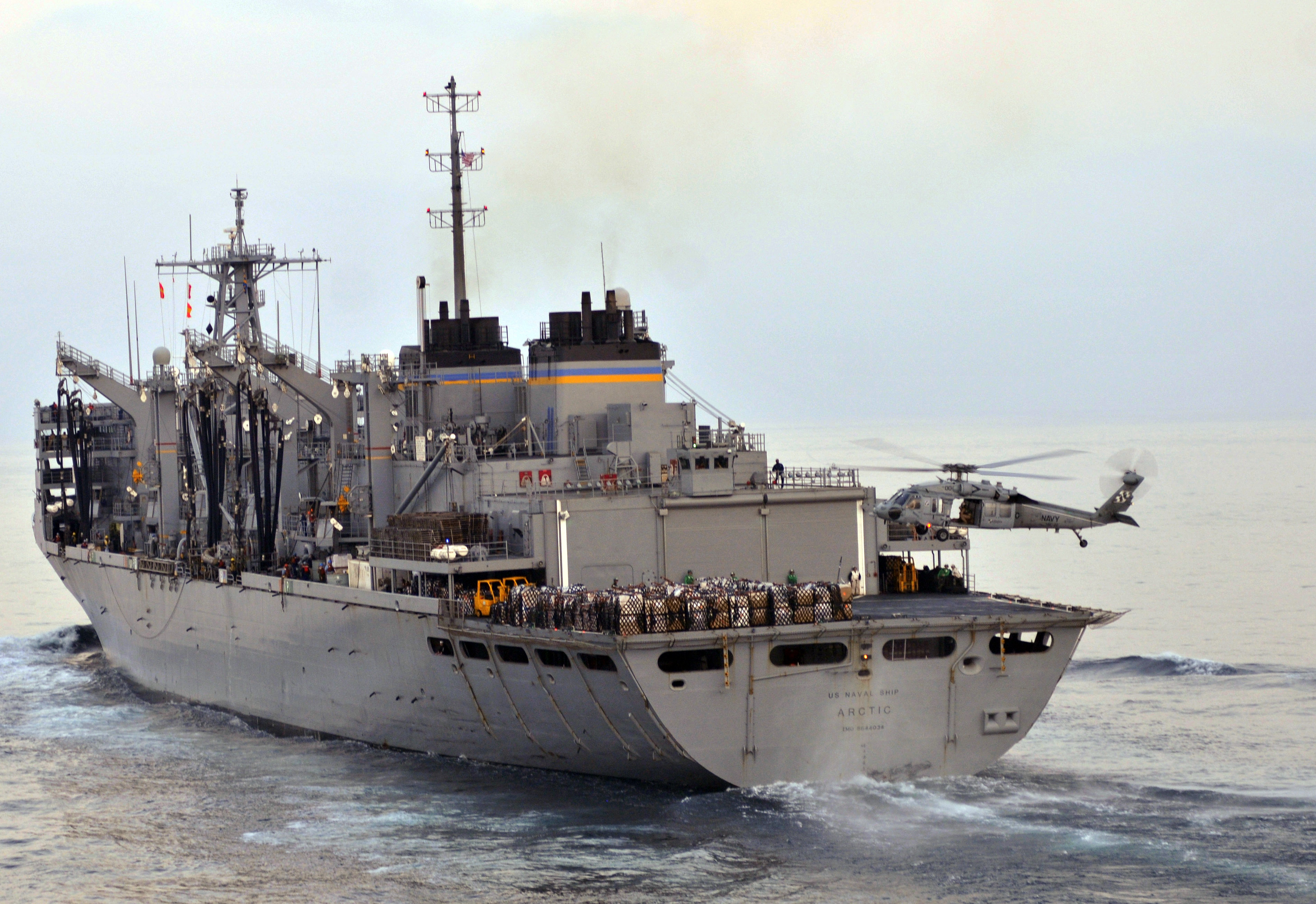 ARABIAN SEA (March 23, 2011) The Military Sealift Command fast combat support ship USNS Arctic (T-AOE 8) approaches the aircraft carrier USS Enterprise (CVN 65) during an underway replenishment. Enterprise and Carrier Air Wing (CVW) 1 are conducting close-air support missions in the U.S. 5th Fleet area of responsibility. (U.S. Navy photo by Mass Communication Specialist 1st Class Rebekah Adler/Released)